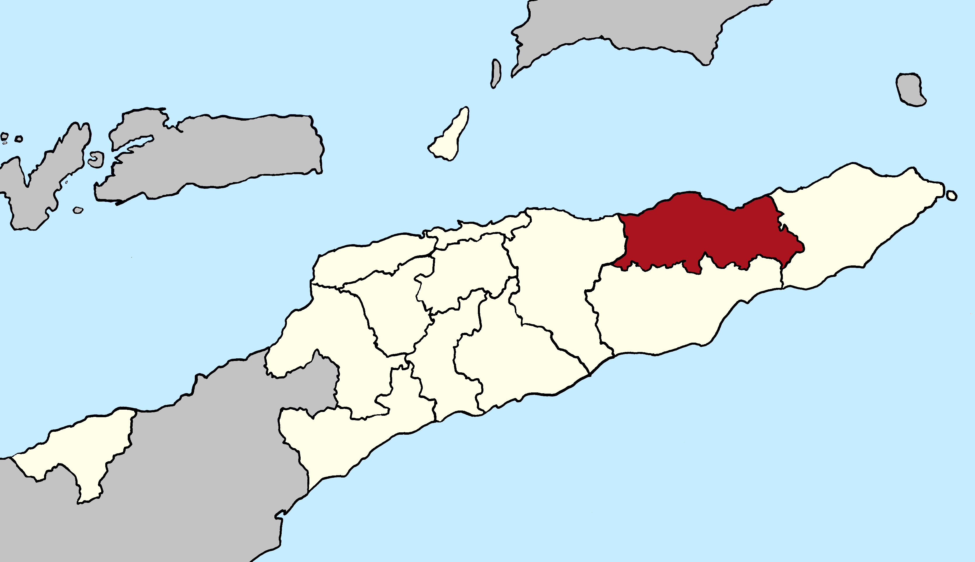 Locator map of Baucau municipality since 2015, East Timor